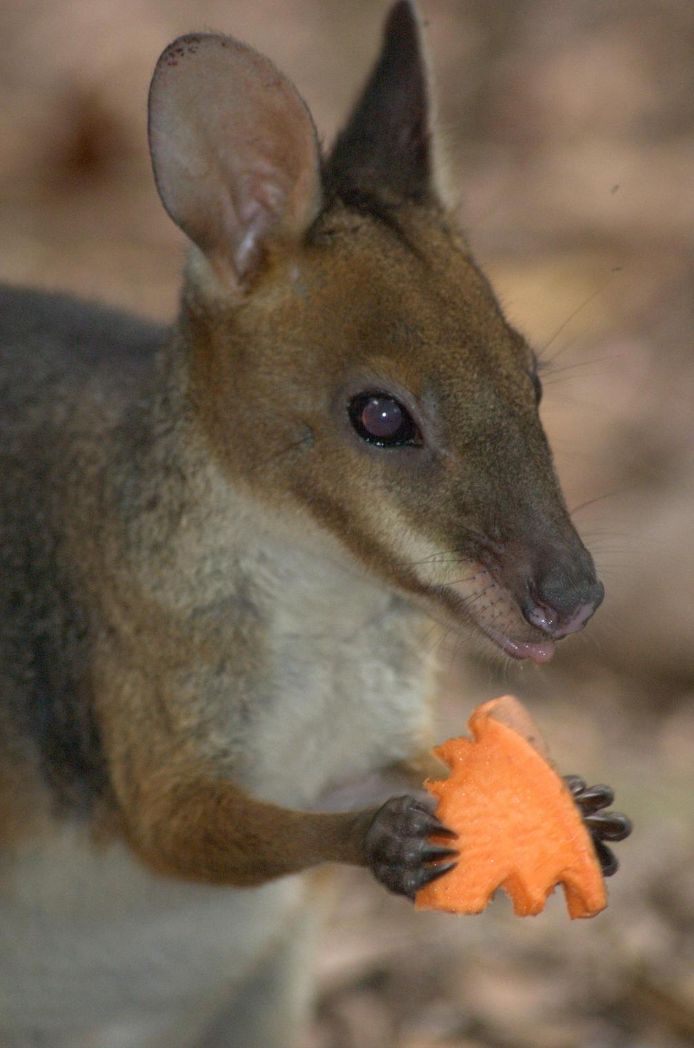 A close-up of a pademelon eating a slice of sweet potato near Port Douglas in December 2005. An even higher resolution photo is available upon request. пан Бостон-Київський 20:31, 27 January 2006 (UTC)